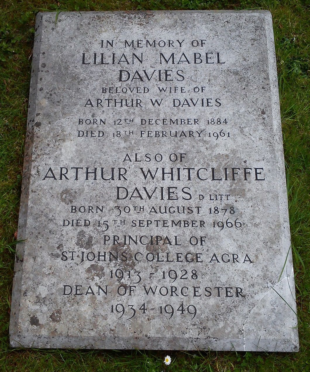 Worcester Cathedral, grave of Dean Davies in the Cathedral Cloisters